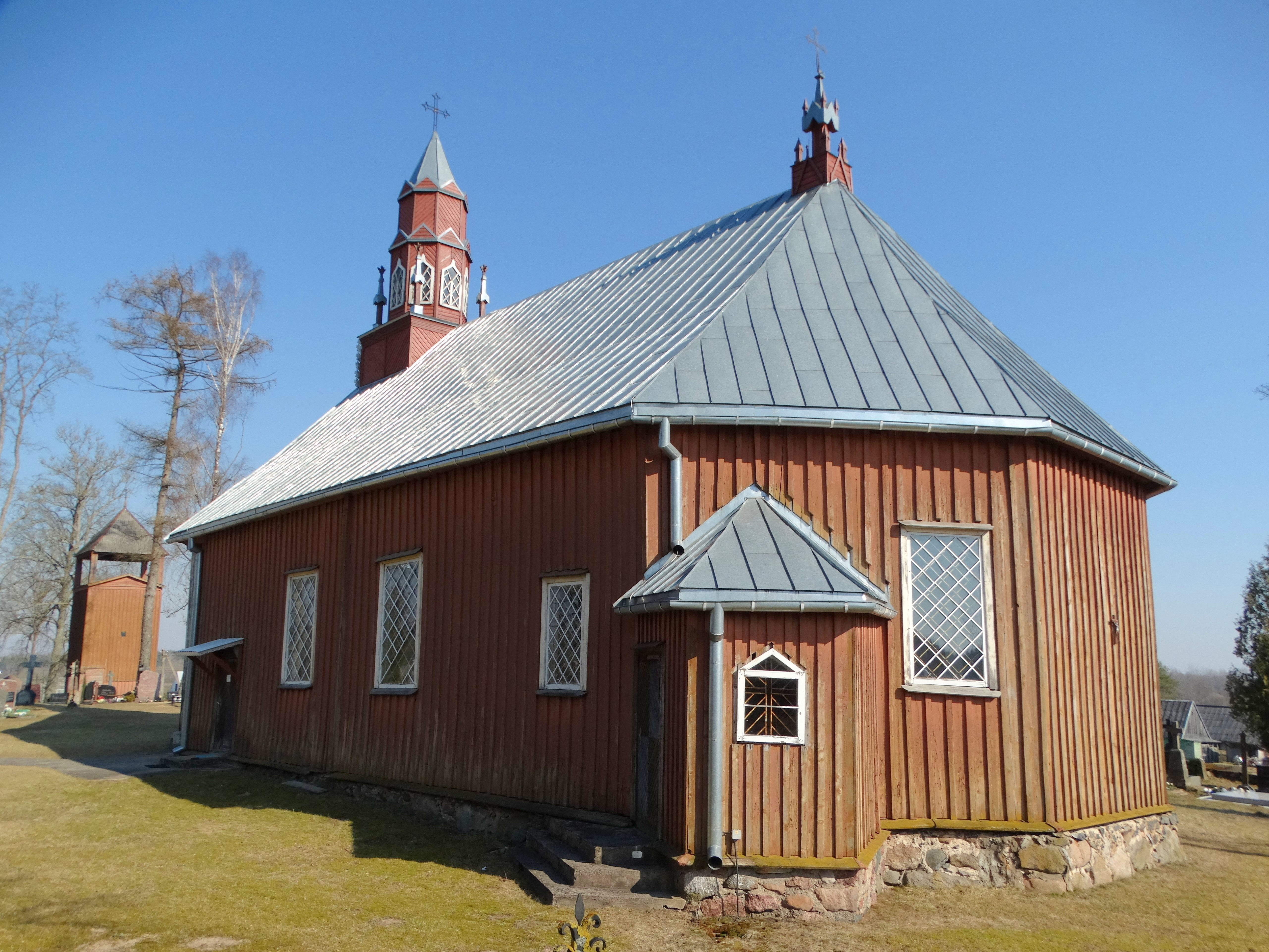 Holy Guardian Angels Church, Ubiškė, Telšiai district, Lithuania